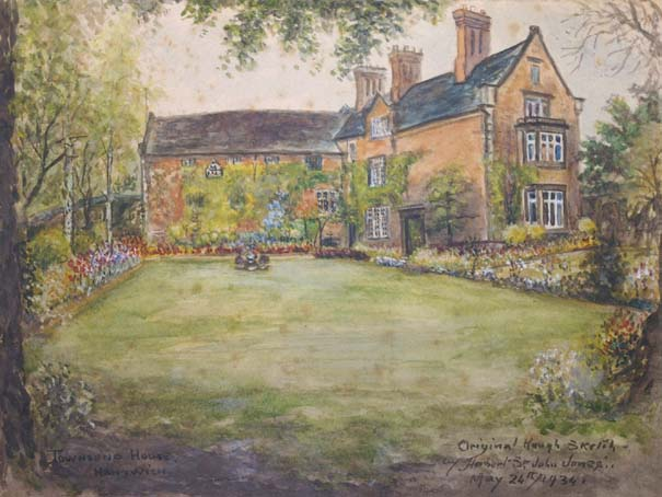 Townsend House in Welsh Row, Nantwich, by Herbert St. John Jones, May 1934. Artist died 1939